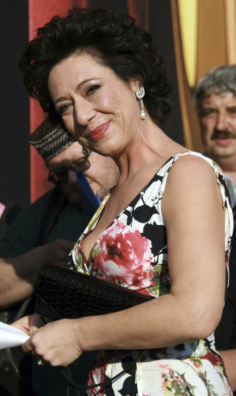 Actress Andrea Händler at the Romy TV awards (Hofburg Imperial Palace in Vienna)